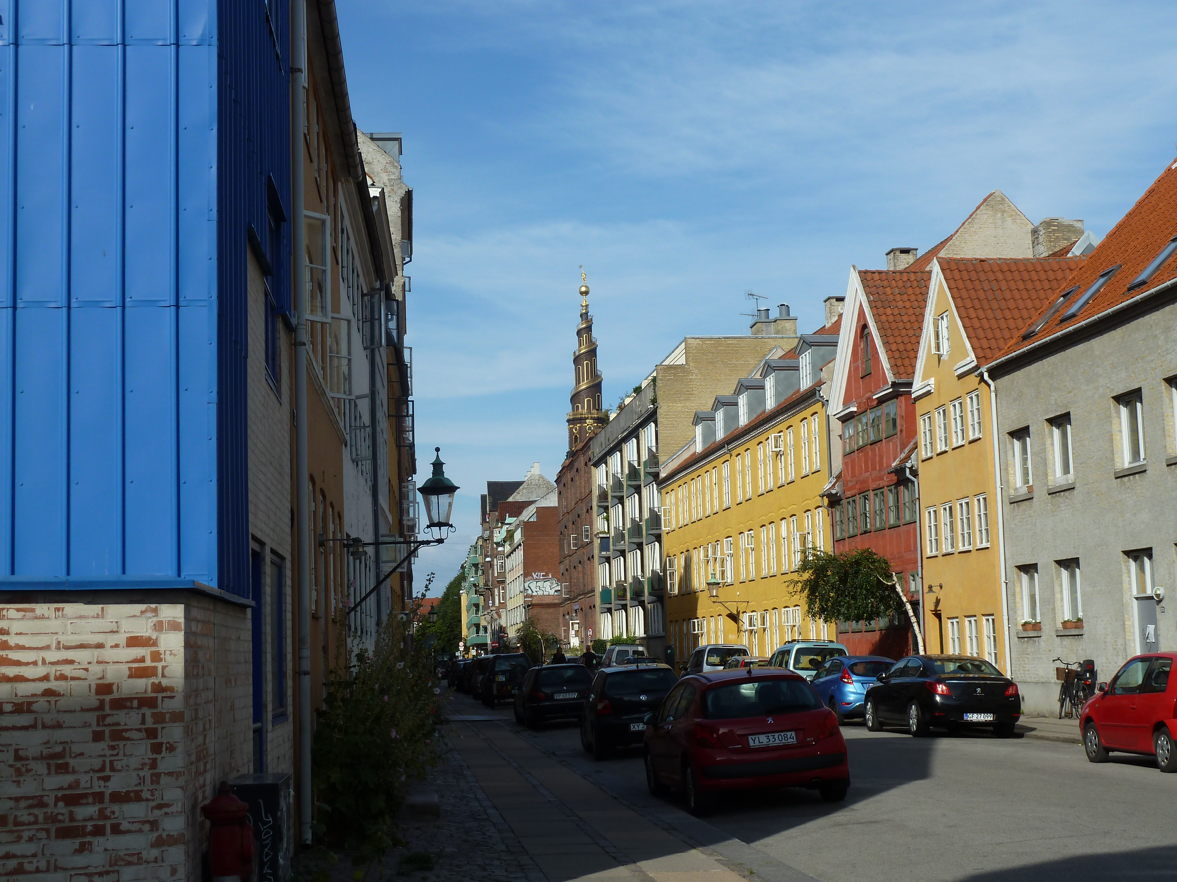 Dronningensgade in the Christianshavn neighbourhood of Copenhagen, Denmark